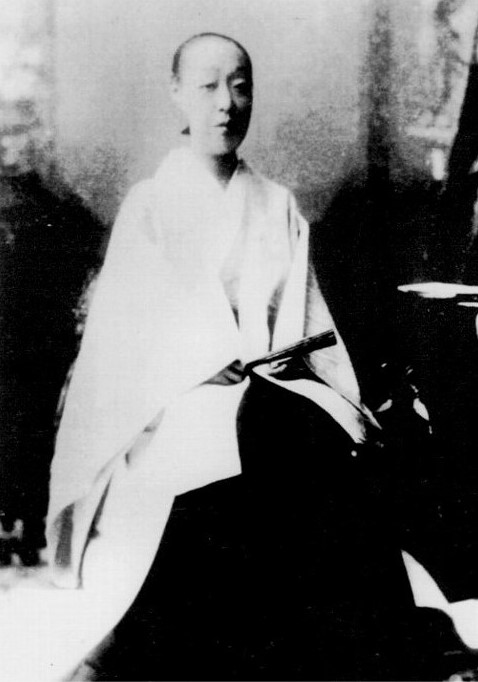 徳信院(一橋直子、徳川慶壽の正室)の肖像写真。